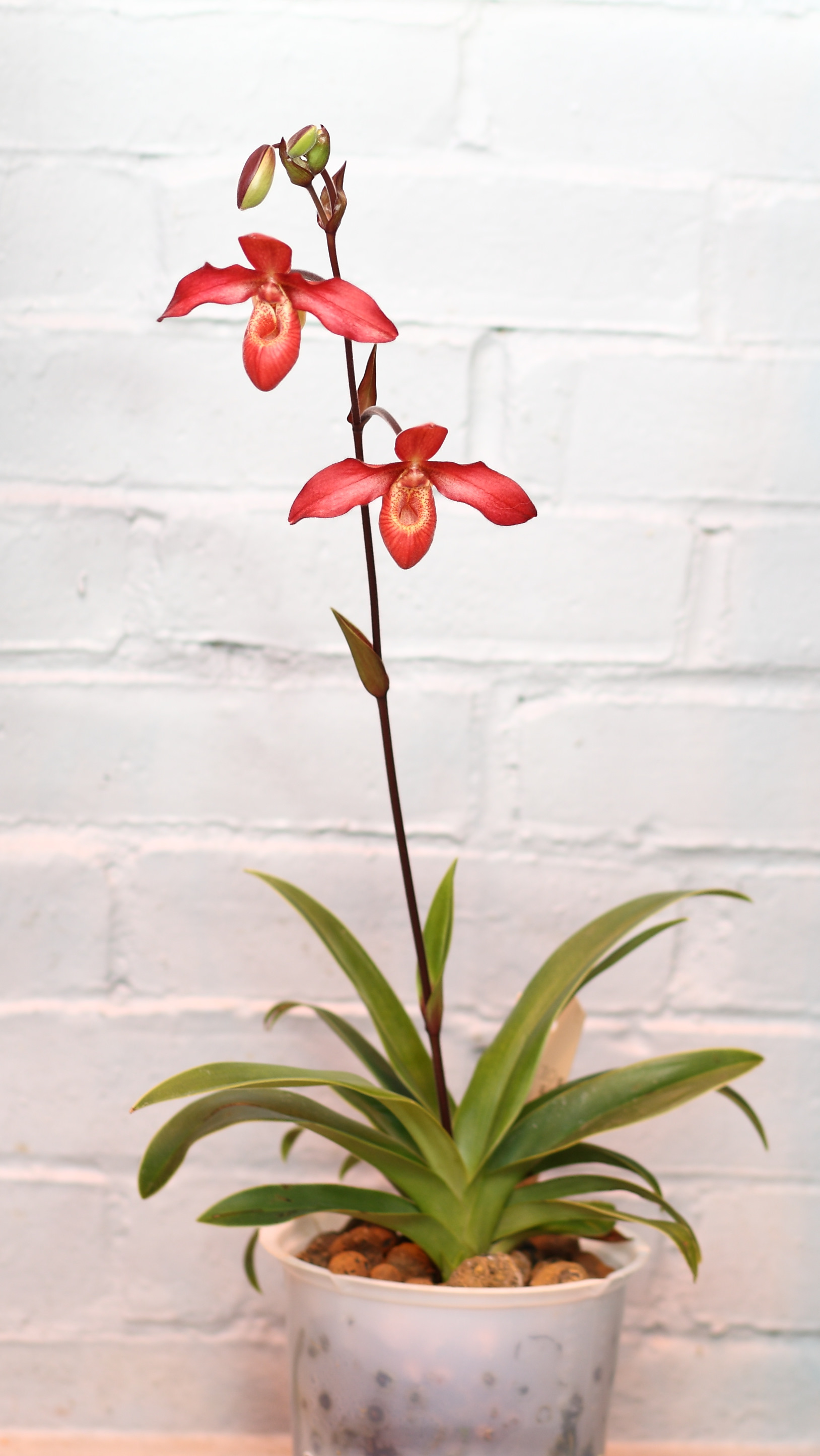 A Phragmipedium Memoria Dick Clements orchid, part of the collection at Dartmouth College